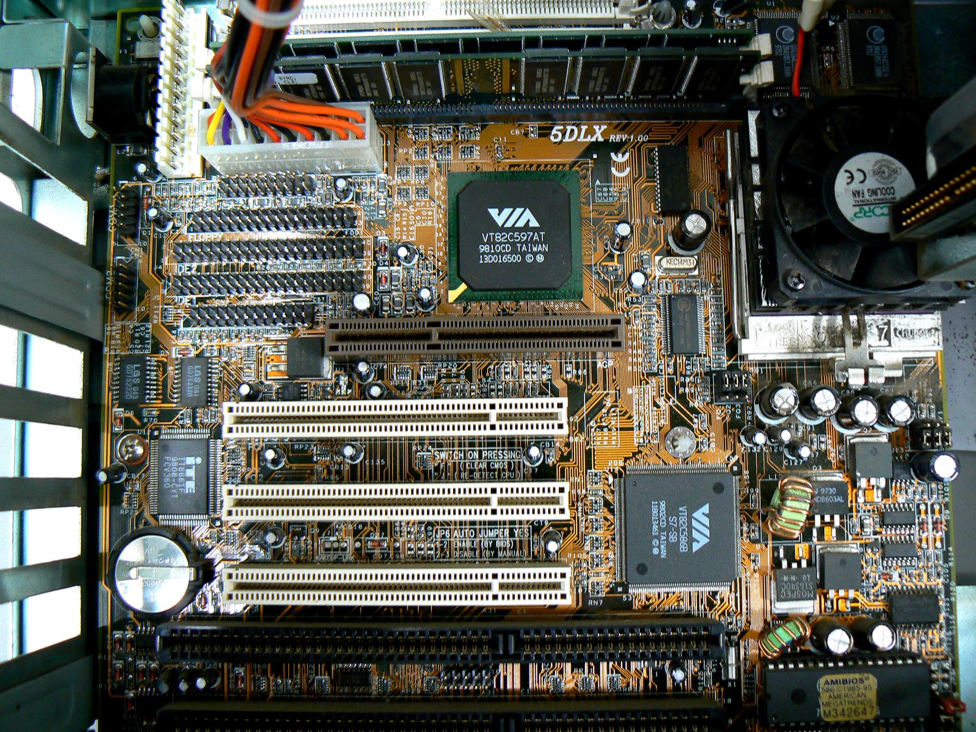 The Socet 7 motherboard 5DLX rev 1.00 with VIA Apollo VP3 chipset produced by Zida Inc.